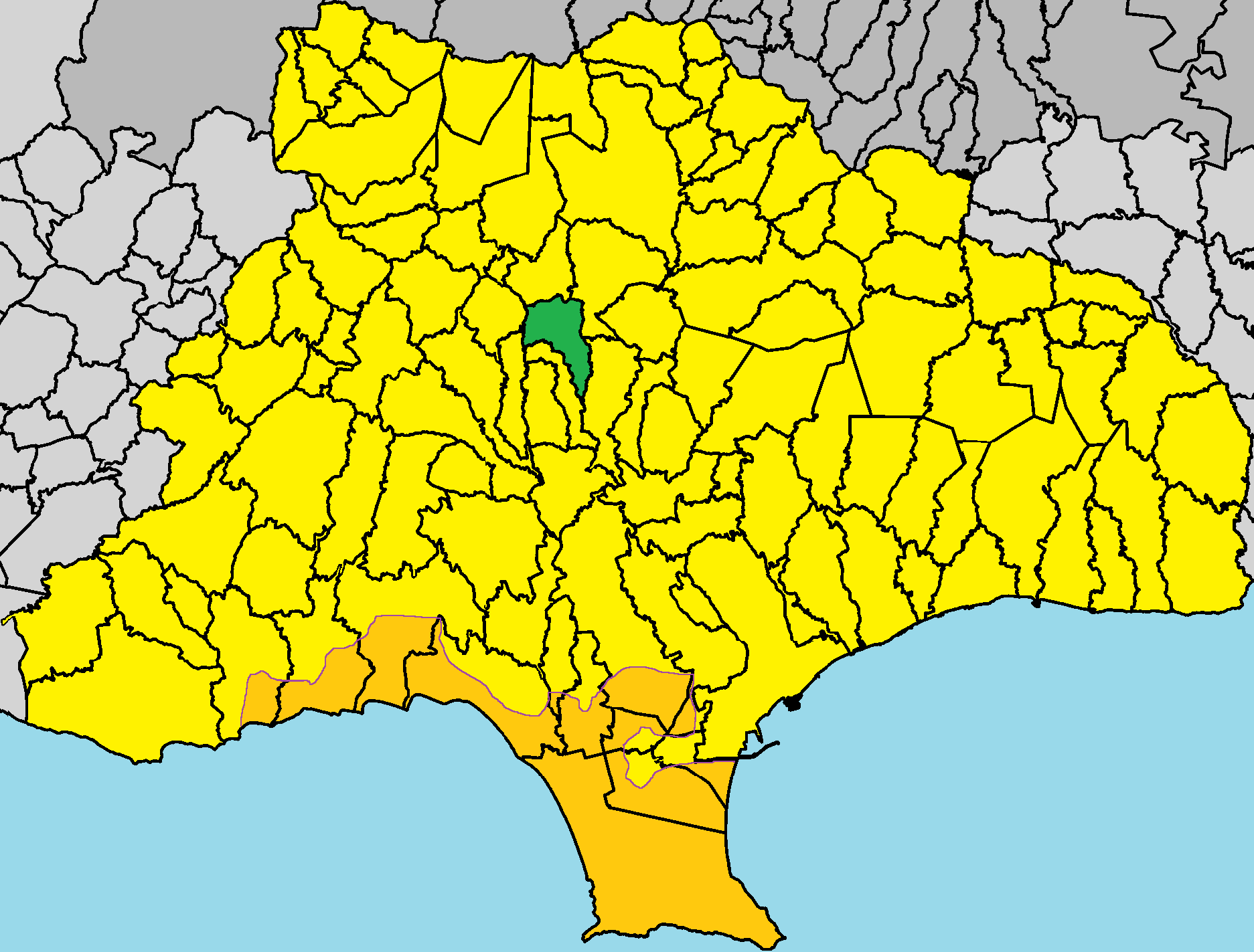 Laneia in Limassol District.